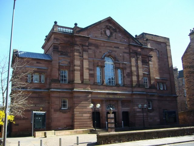 Churchhill Theatre, Morningside Originally the Morningside Free Church, the building was converted to a municipal theatre in 1965.